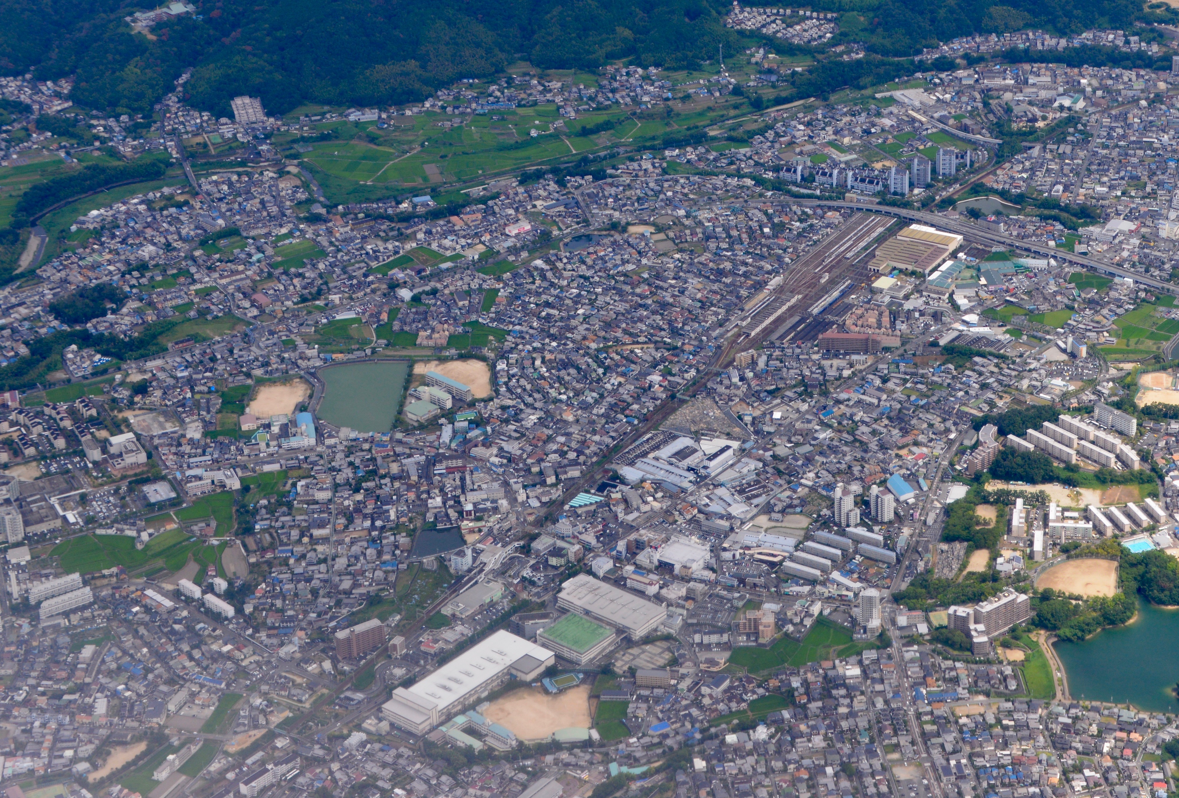 河内長野市千代田地区。伊丹空港へ向かう機内より撮影